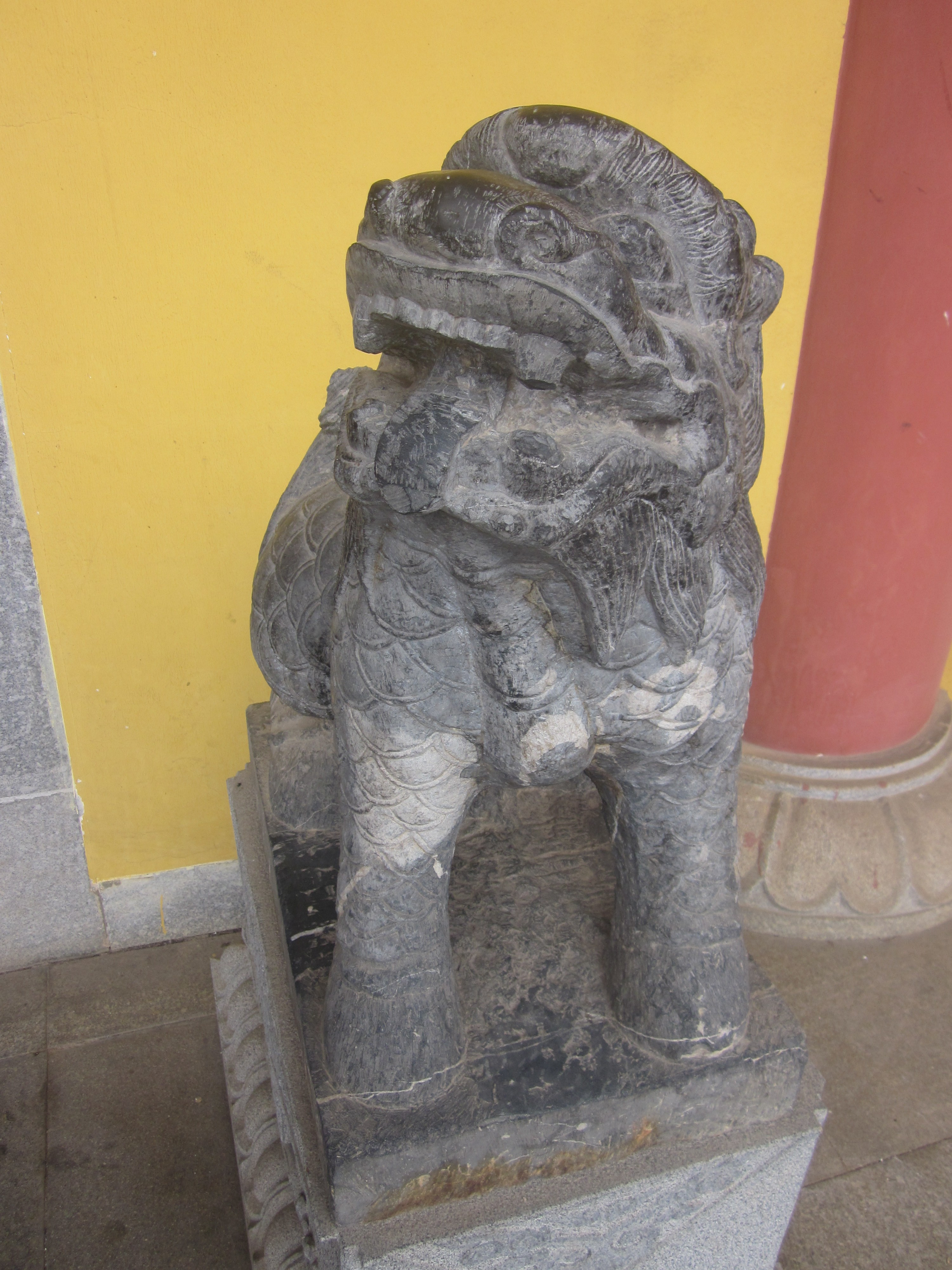 A Pixiu at Xixin Chan Temple. 中文（中国大陆）: 洗心禅寺的一只貔貅。